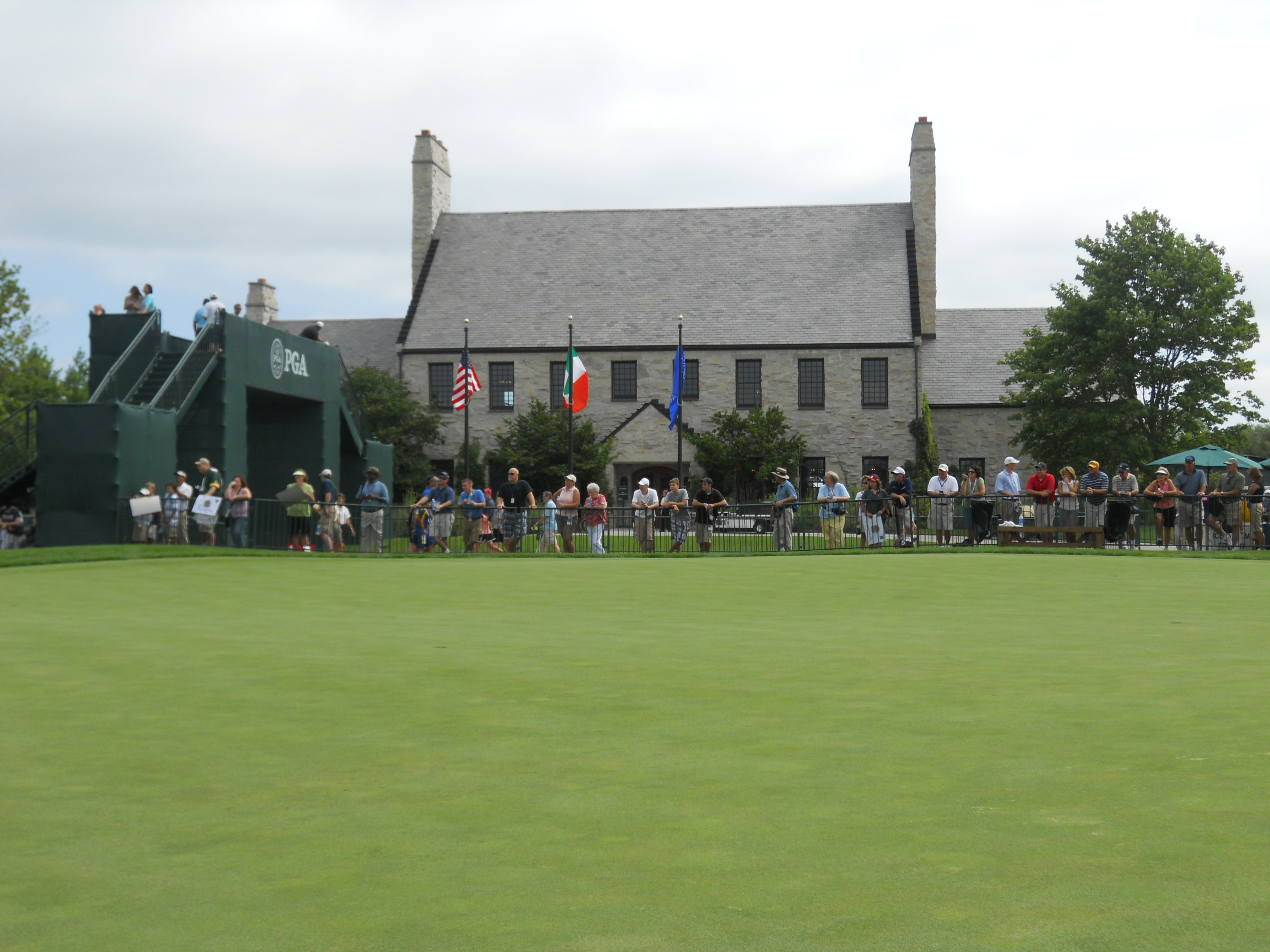 Club house at Whistling Straits Golf Course in Haven, WI during the 2010 PGA Championship.